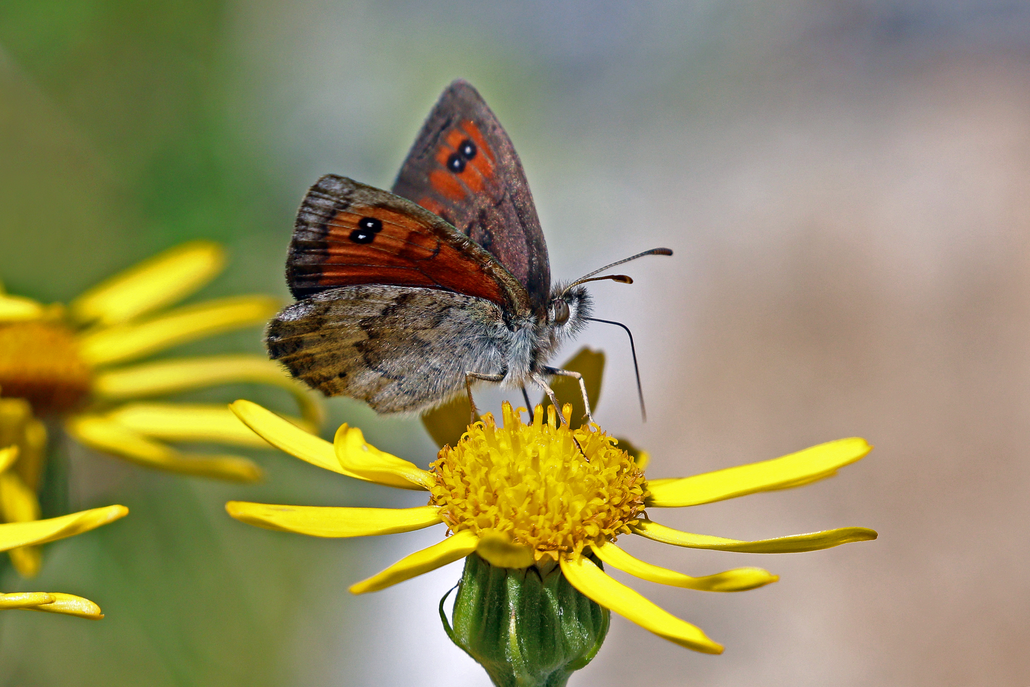 Ottoman brassy ringlet (Erebia ottomana), Bezbog Lake, Dobrinishte, Bulgaria